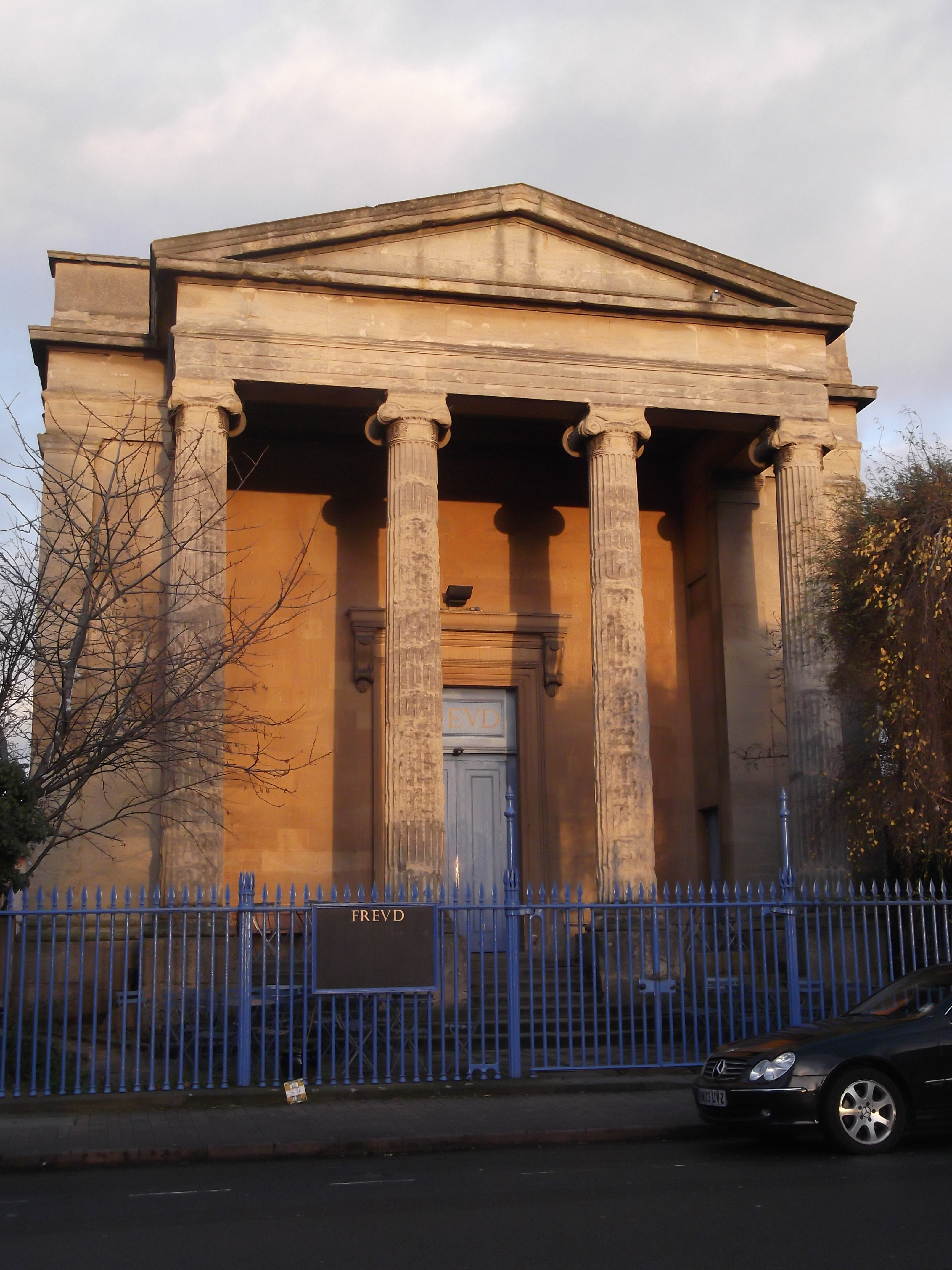 Freud's bar and restaurant, Walton Street, Oxford, England: built in 1836 as St Paul's parish church.